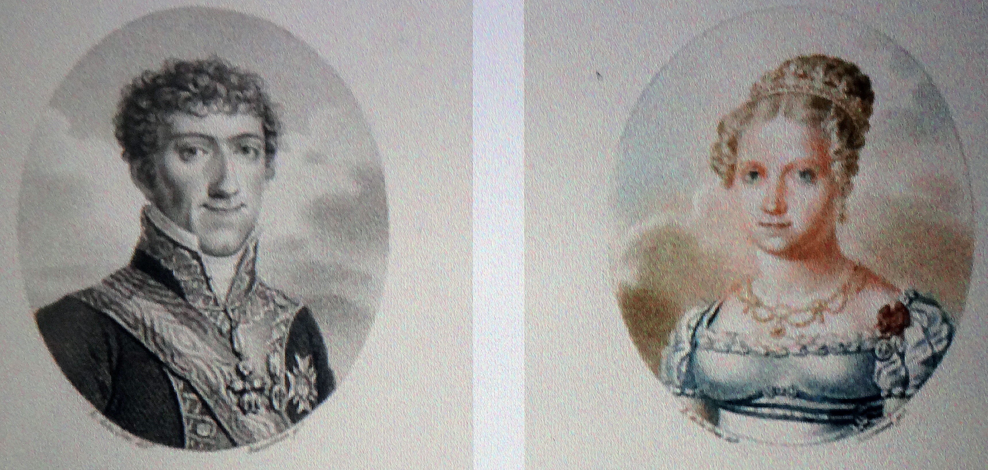 Infante Francisco de Paula of Spain and his wife Infanta Luisa Carlota